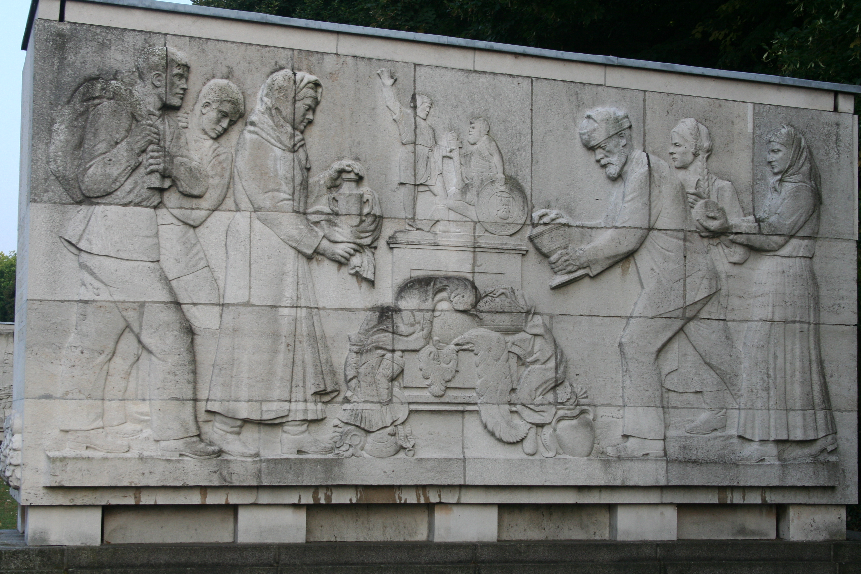 Treptower Park in Berlin, Germany